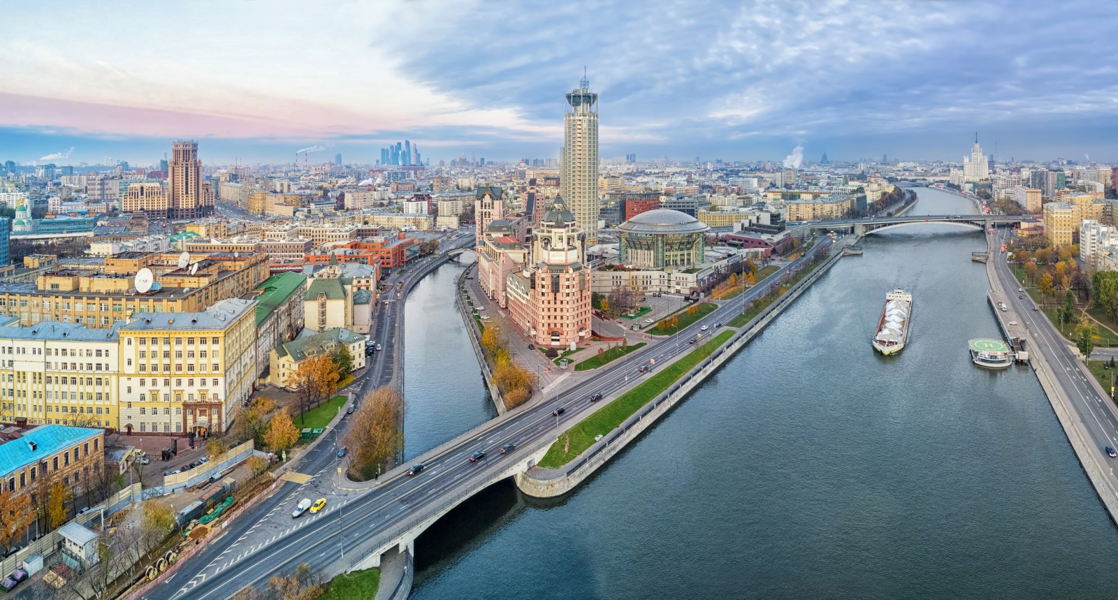 Panorama of Moscow, Moscow International House of Music and Swissôtel Krasnye Holmy